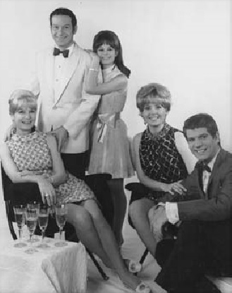 Mores' Family. From left to right: Myrna Mores, Mariano Mores, Silvia Mores, Claudia Mores, Nito Mores. 1969